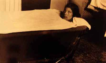 Example of psychiatric patient being held in the bath.